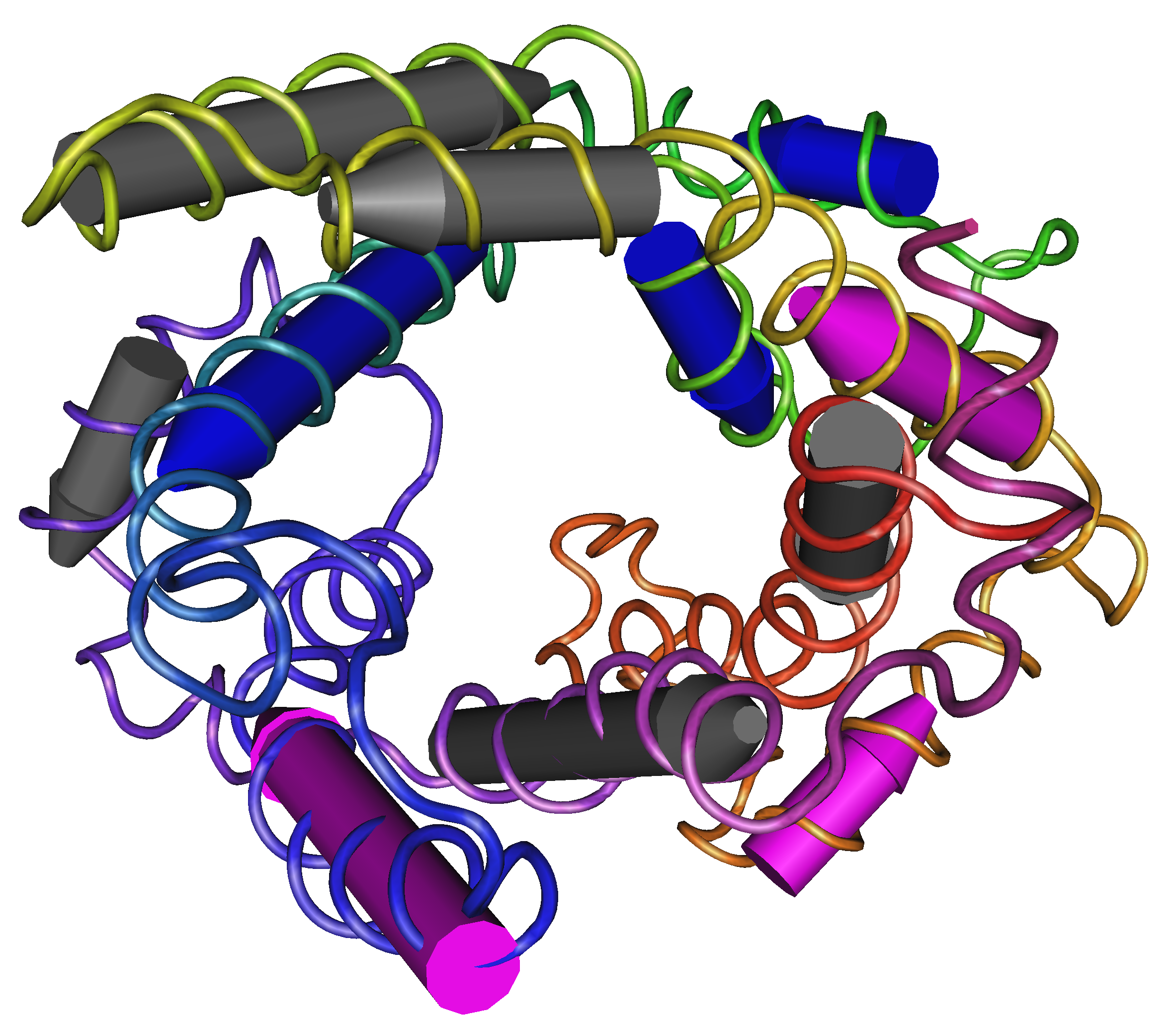 MMDB ID 92271_PDB ID 2LCK_Mitochondrial Uncoupling Protein 2. Mitochondrial uncoupling proteins (UCP) are members of the larger family of mitochondrial anion carrier proteins (MACP). UCPs separate oxidative phosphorylation from ATP synthesis with energy dissipated as heat, also referred to as the mitochondrial proton leak.